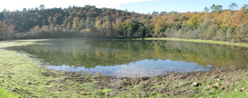 Bonne-Cougne temporary lake in Gonfaron in the Var district (Provence)